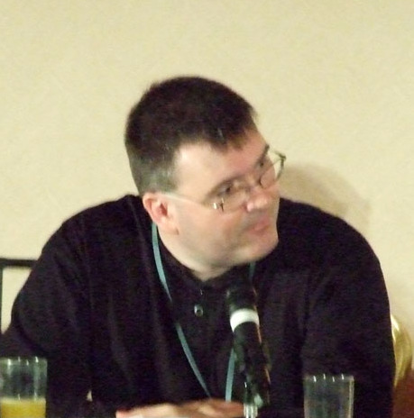 Simon Morden at the 2011 Illustrious science-fiction convention.